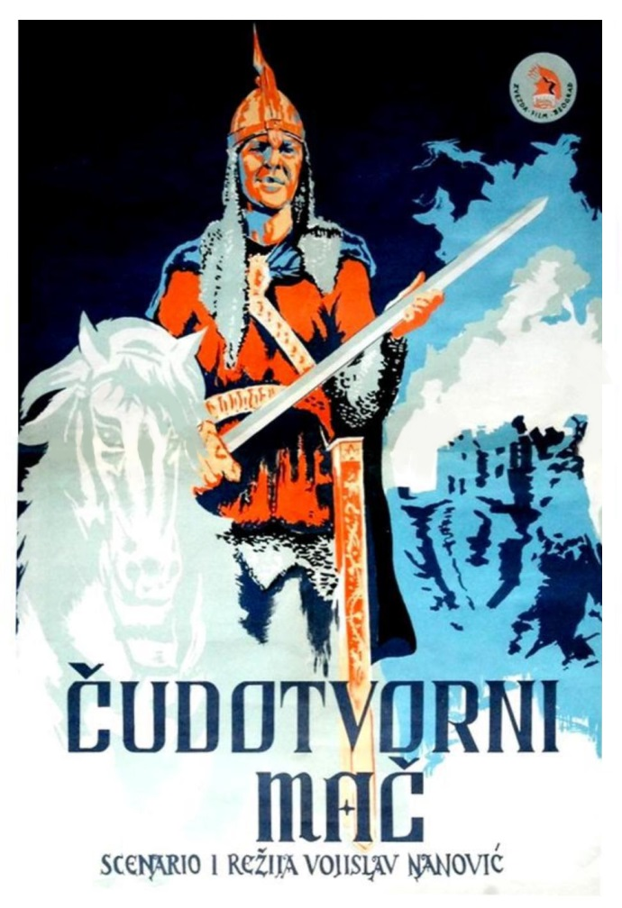 Restored Yugoslav Movie Poster for "Magic Sword"